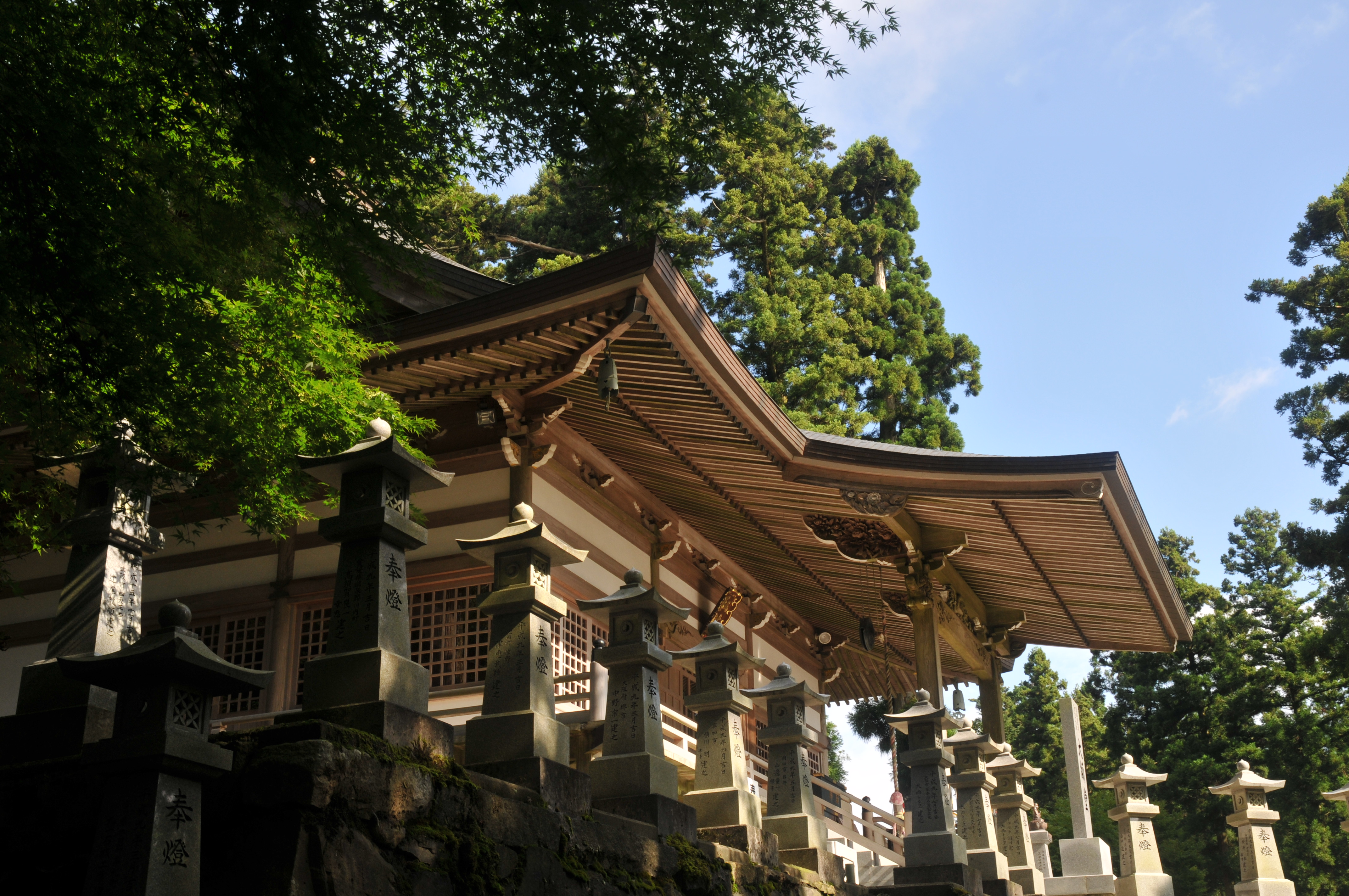 Daishi-dō, Unpen-ji